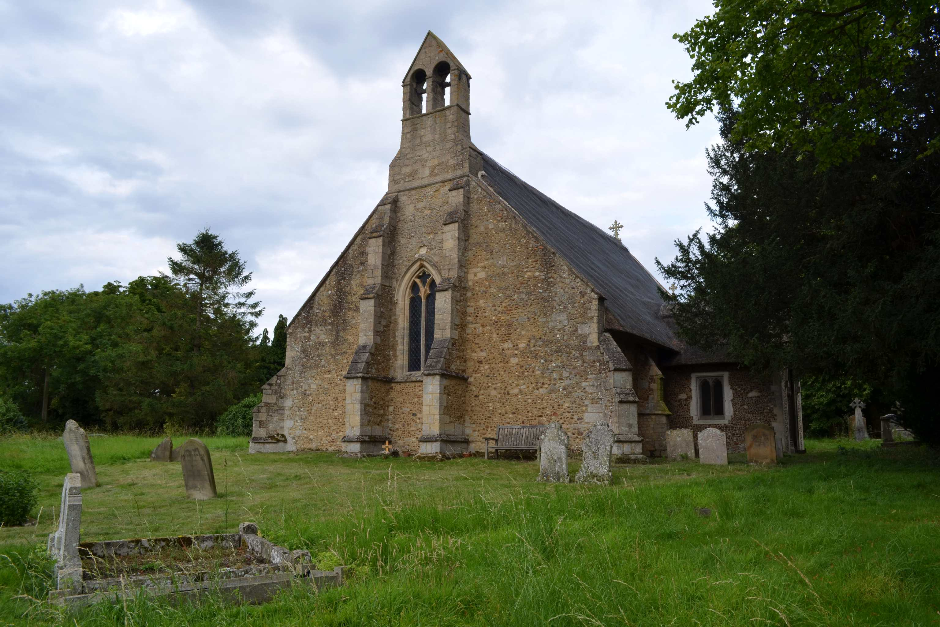 St Michael's Church, Longstanton, Cambridgeshire, England viewed from the southwest in July 2014.